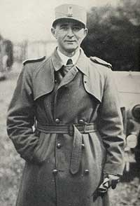 Martin Linge (1894-1941), the first commander of Norwegian Independent Company 1